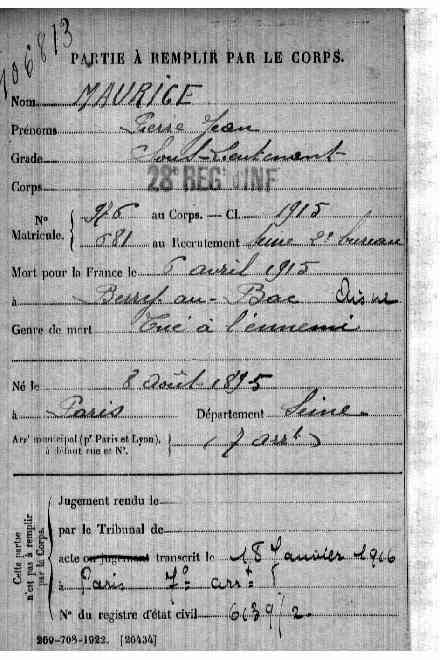 Report of killed in action (french army)